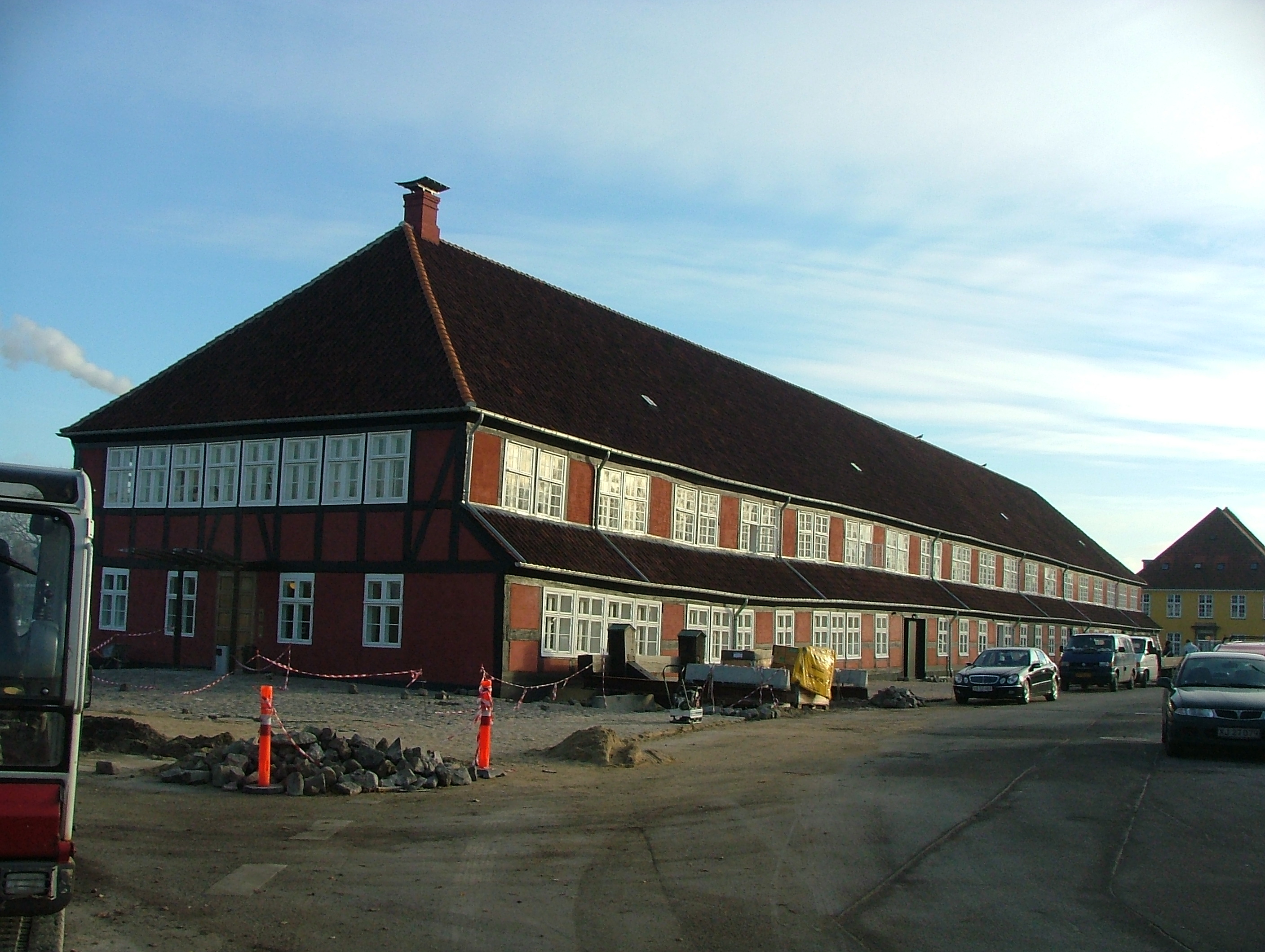 Photos from the former Naval Base Copenhagen: Old workshop where frames for the wooden ships were made Photo by Jan Kronsell, 2005